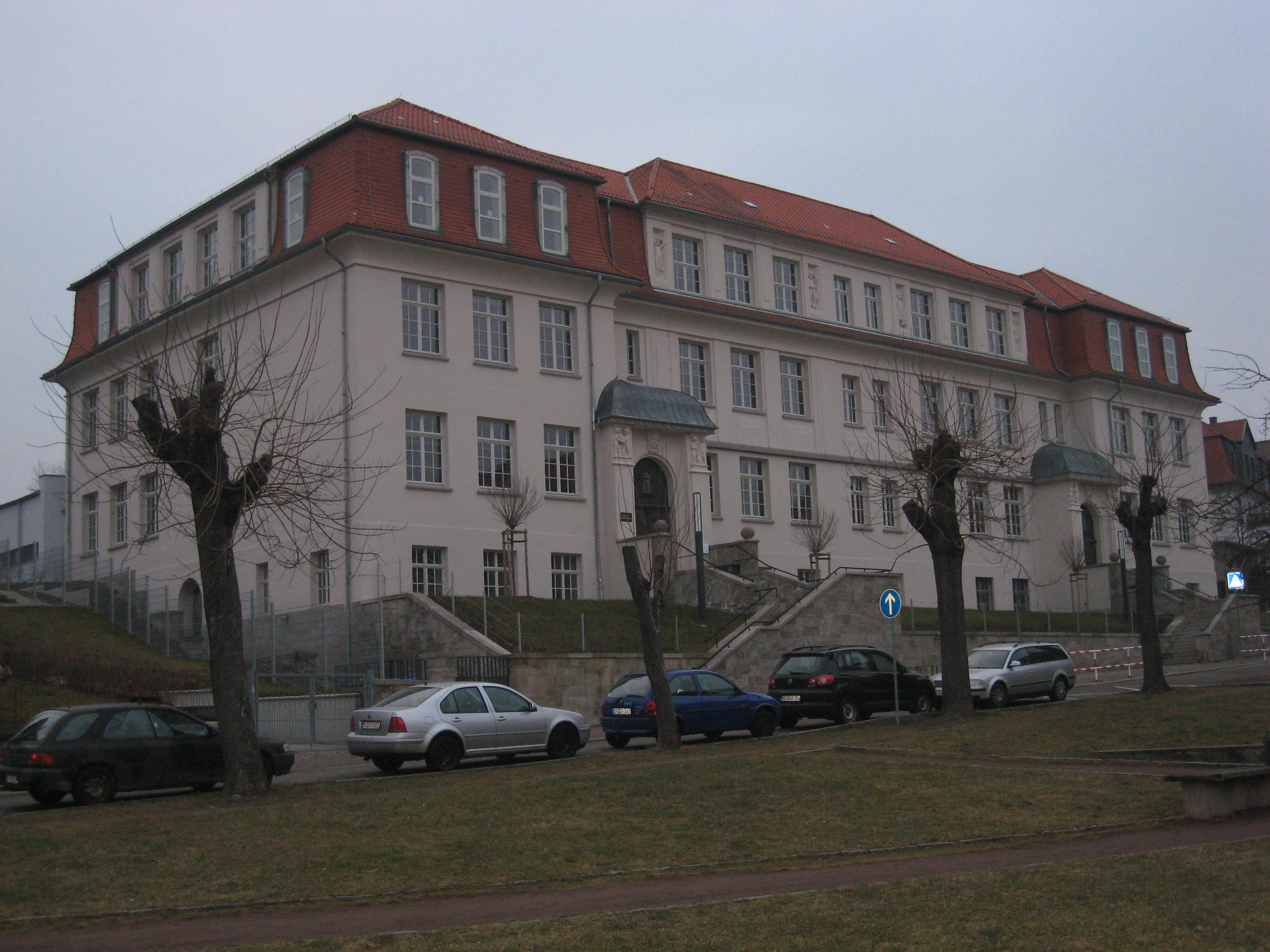 Elementary school Geschwister Scholl in Arnstadt, Richard-Wagner-Strasse 6, former Arnsbergschule